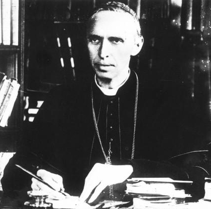 Belgian cardinal Désiré-Joseph Mercier (1851-1926)